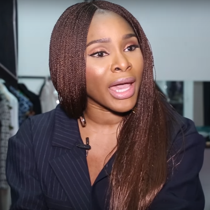 Lisa Folawiyo Nigerian Fashion Designer shoot - Guardian Life's cover shoot. March 2017